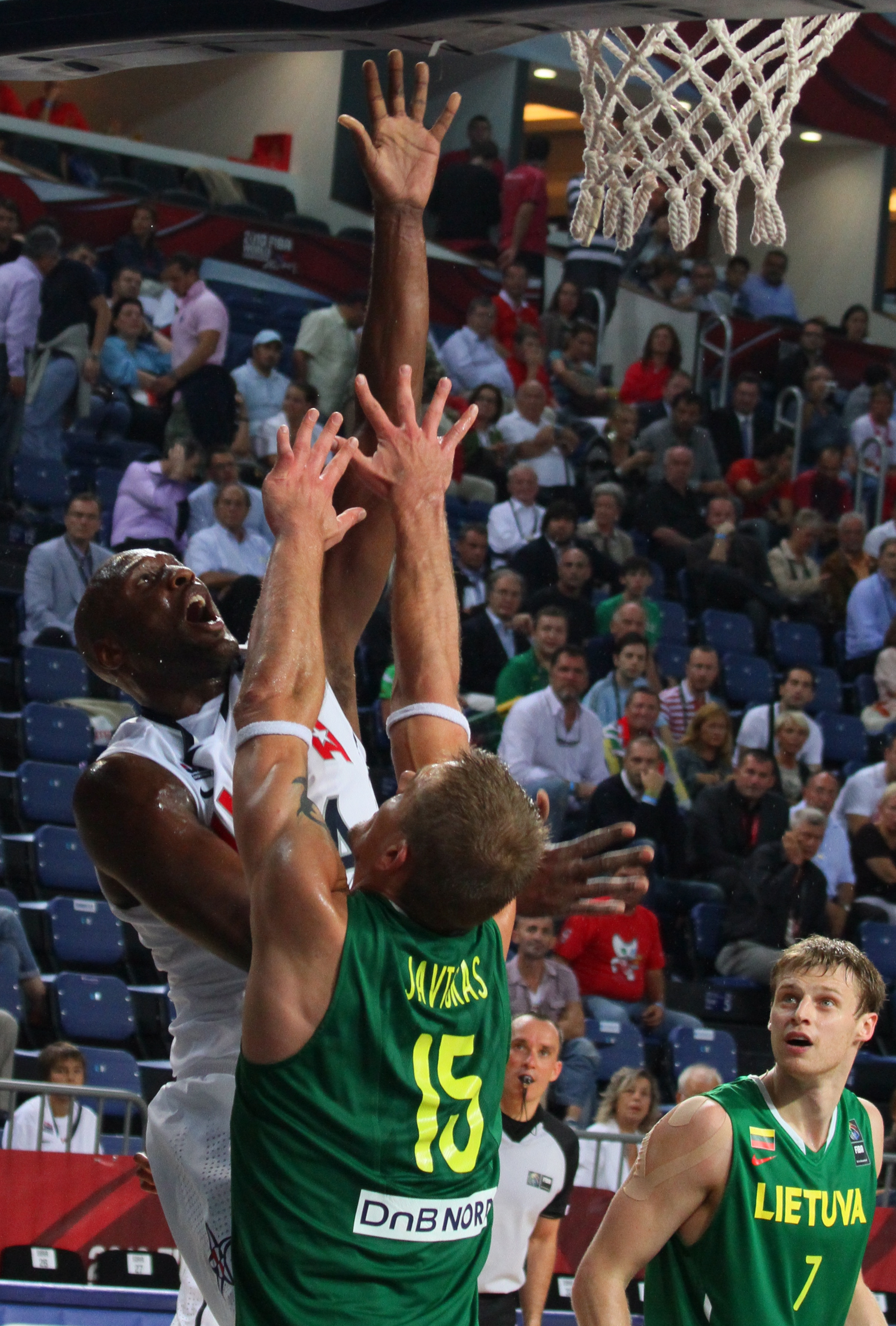 Robertas Javtokas tries to guard Lamar Odom.